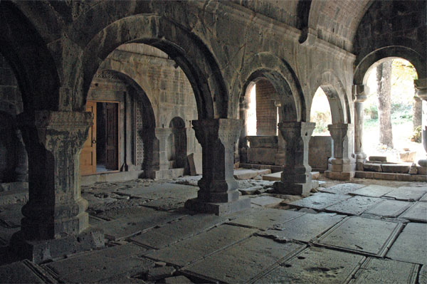 Sanahin monastery. Holy Mother of God Church gavit. Armenia